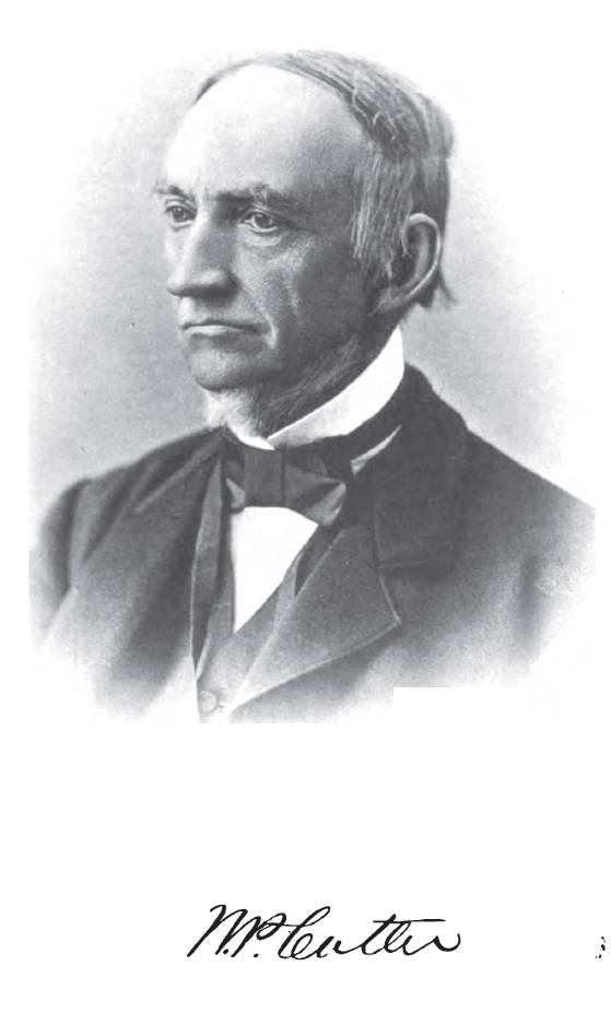 An American politician named William P. Cutler from Ohio in the 19th century